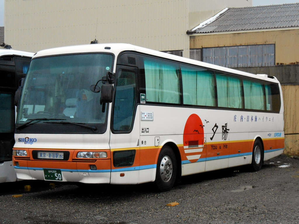 Shonai Kotsu Mitsubishi Fuso Aero Bus (KL-MS86MP) for Highwaybus "You & He"(Sakata,Tsuruoka-Tokyo)